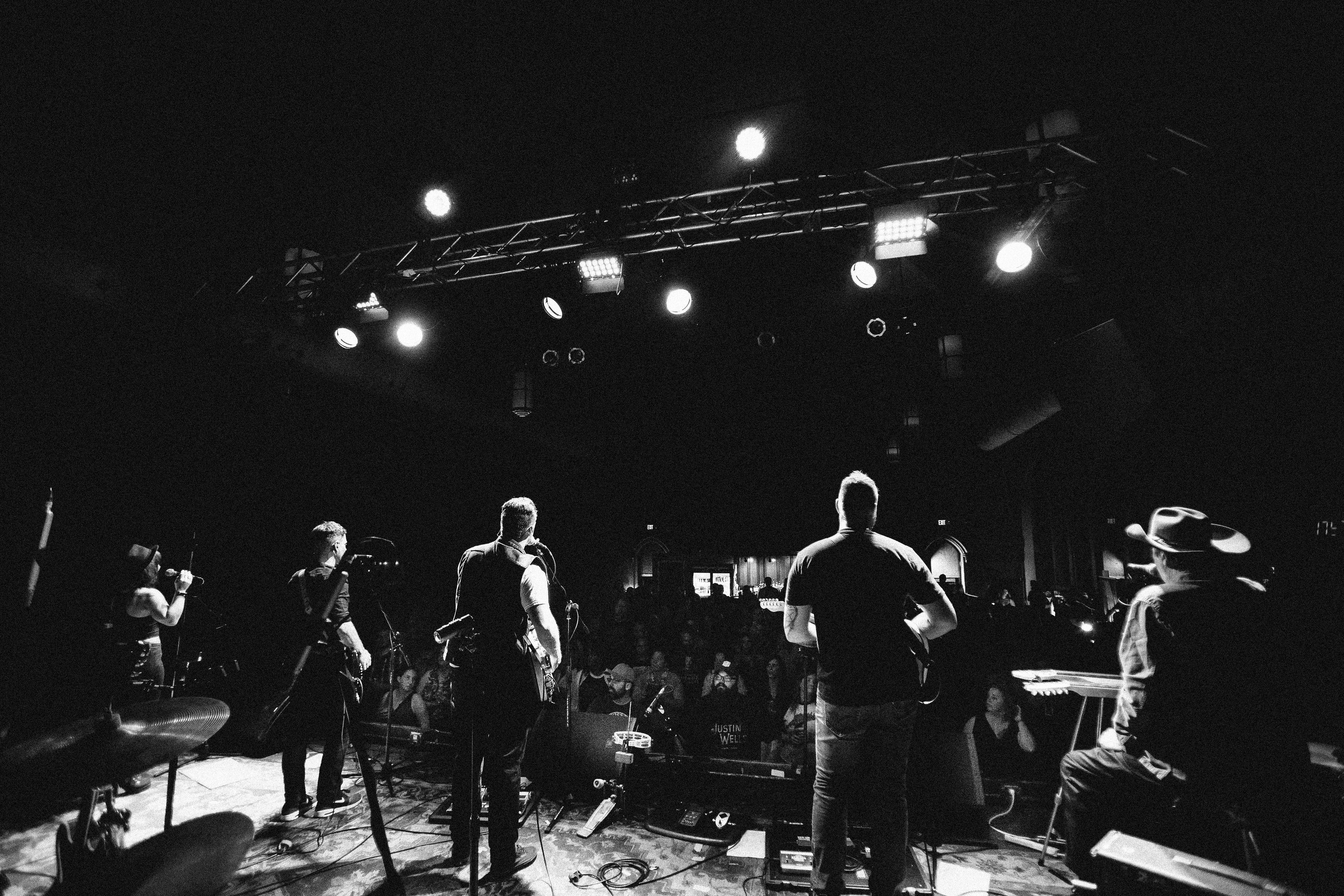 Shot from our Revival recording in May 2018